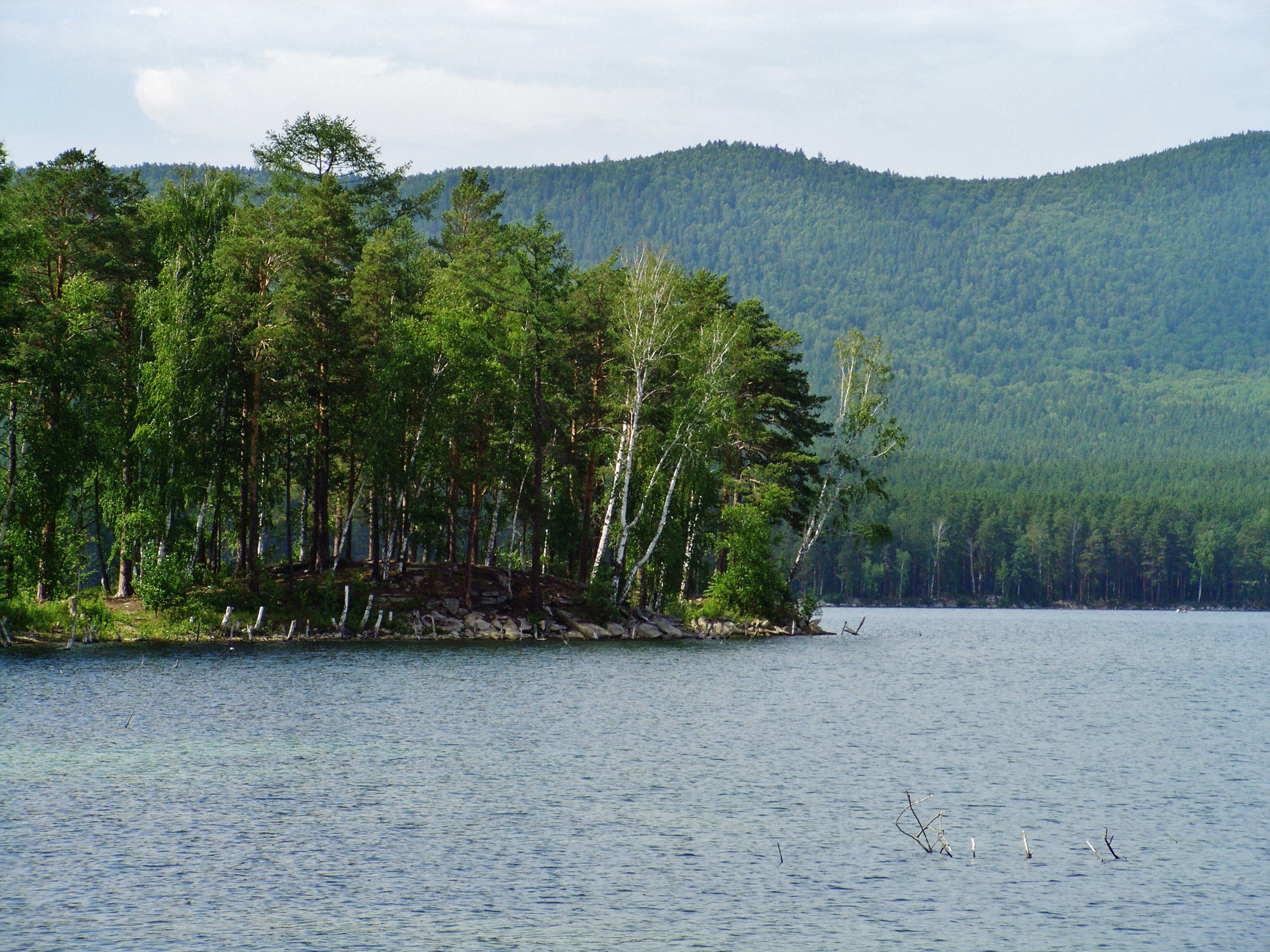 g. Miass, Chelyabinskaya oblast', Russia